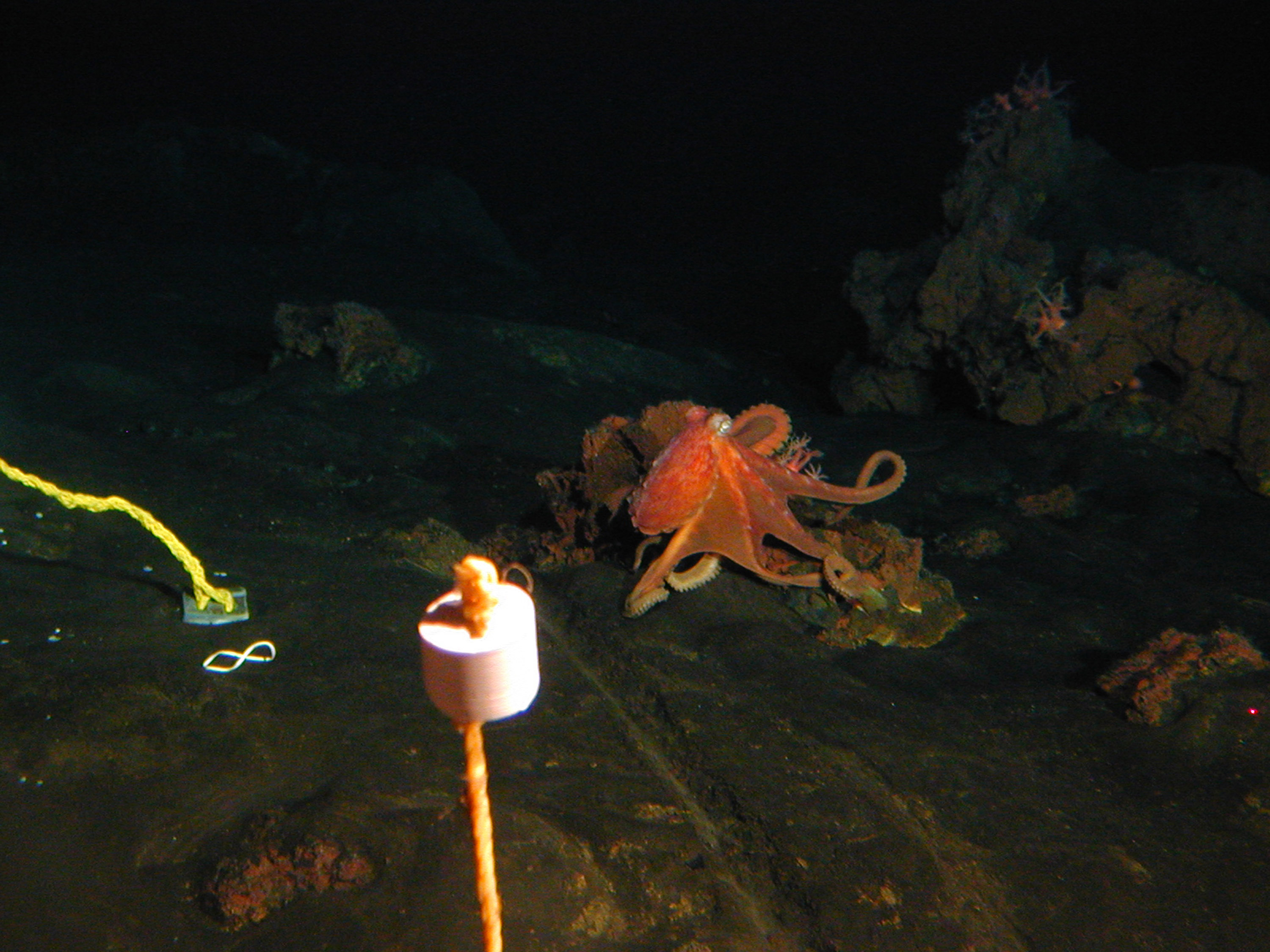 Vailulu'u Expedition 2005. An octopus living on the western summit of Vailulu'u was observed on several occasions.